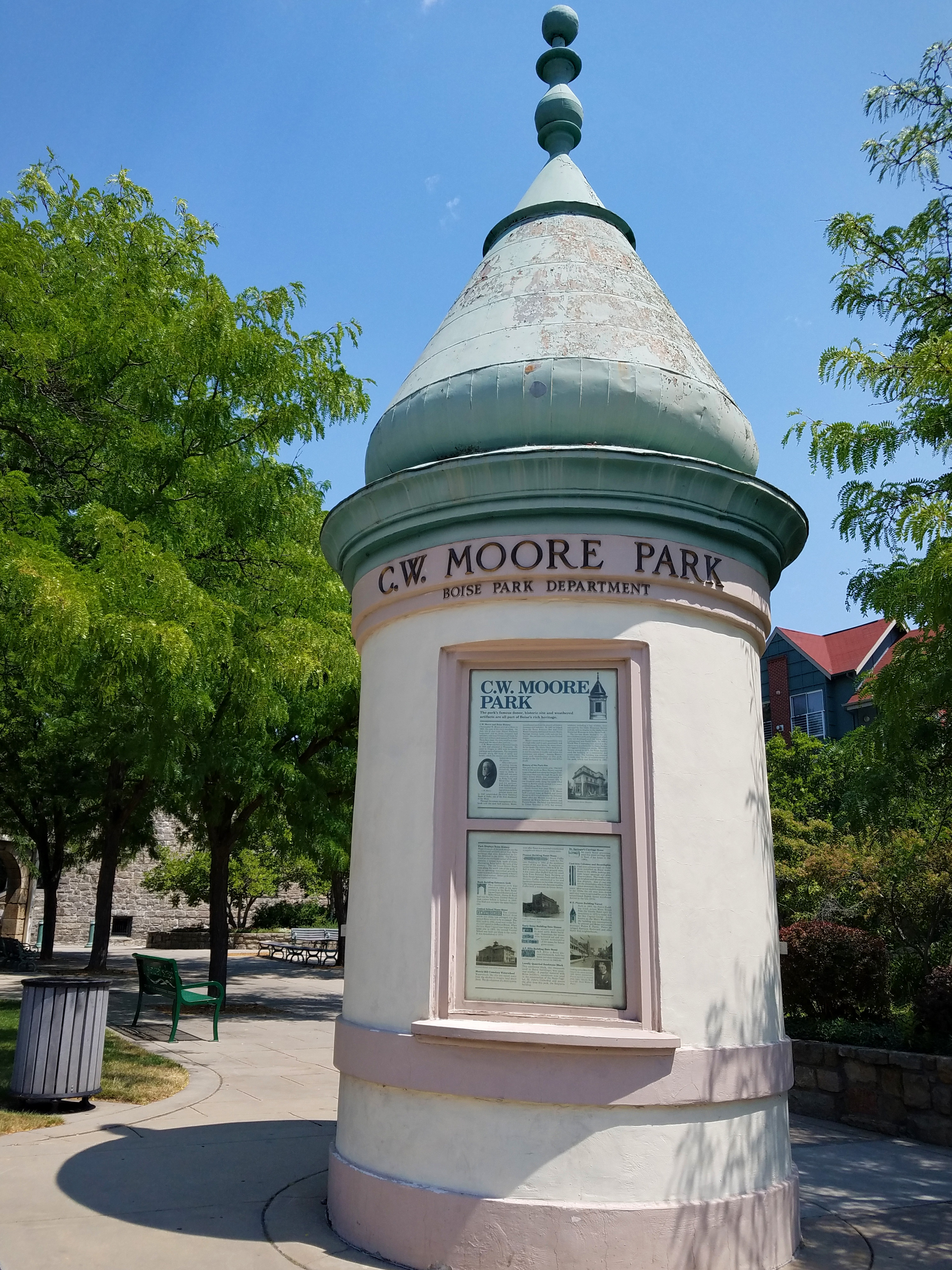 A turret from the Walter E. Pierce building (1903) is preserved at C. W. Moore Park in Boise, Idaho. The Pierce building was demolished in 1975.